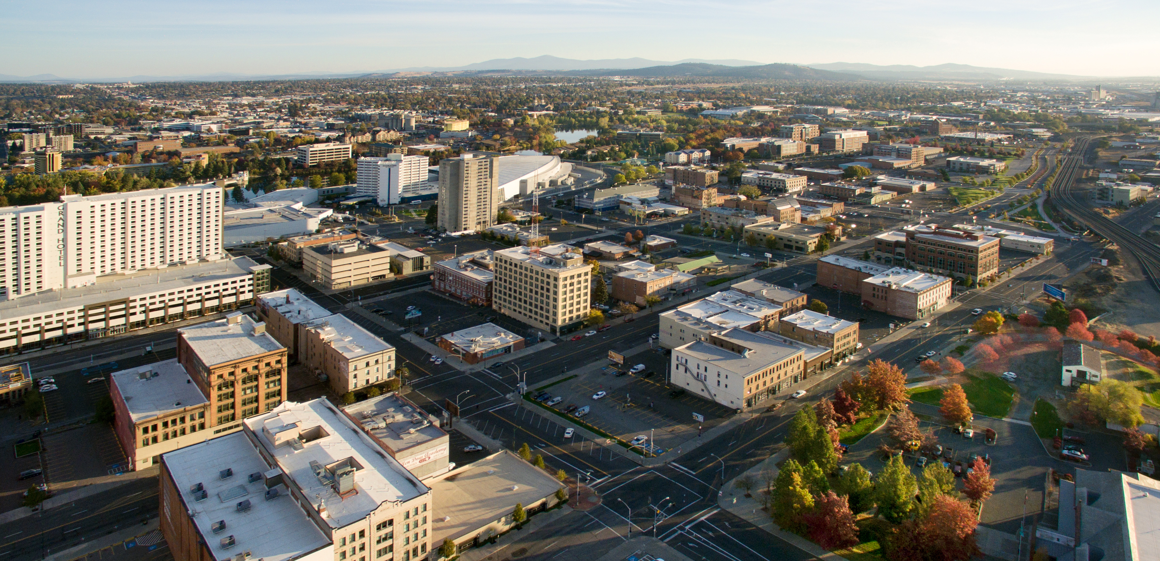 East Downtown Spokane looking Northeast over the convention center, the University District, and Gonzaga in the distance.